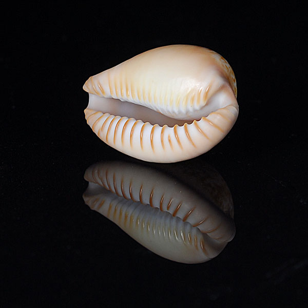 Cypraeidae Cypraeovula fuscorubra